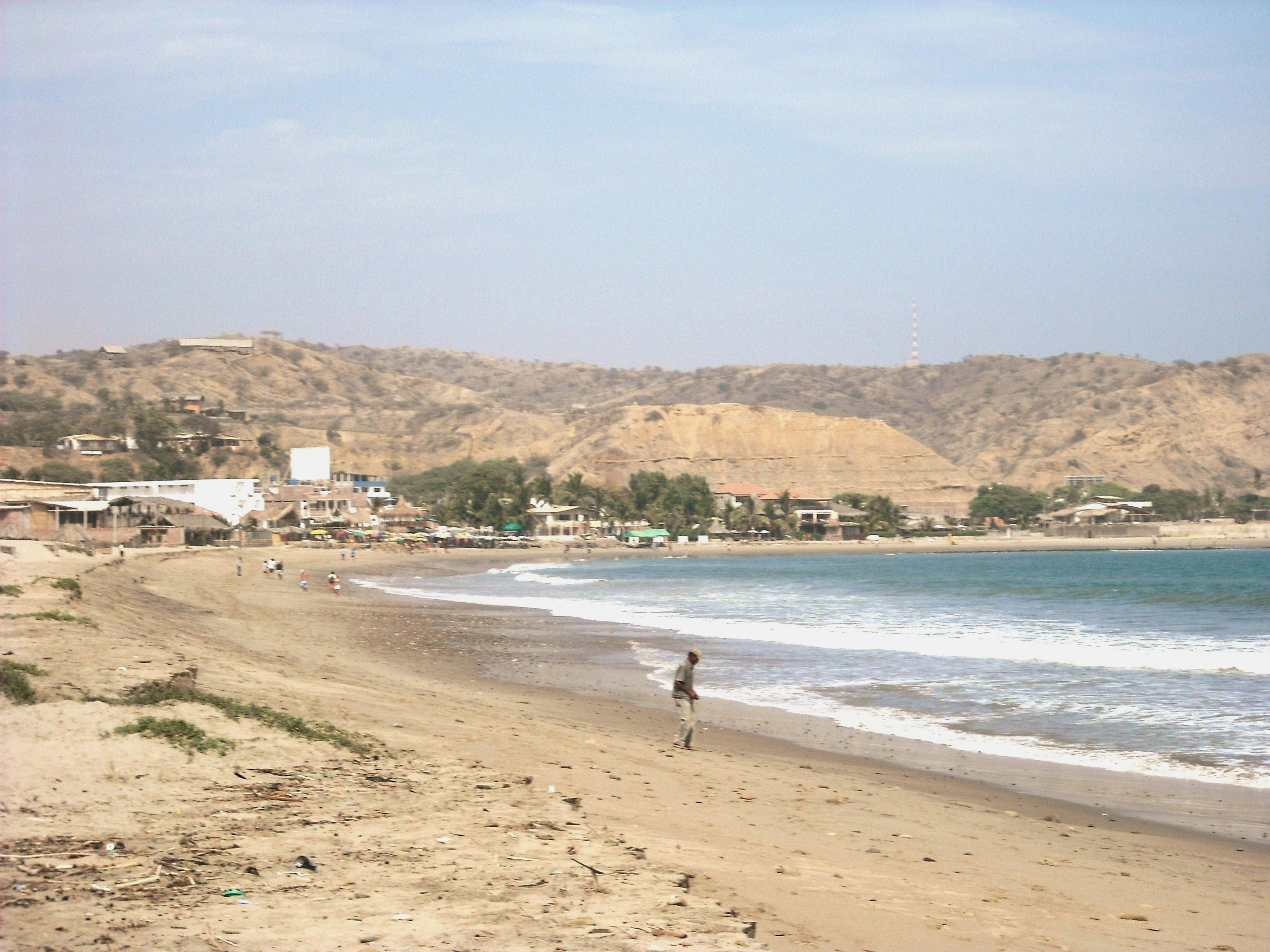 Máncora beach, the man in the middle is searching for coins dropped by the surfers and brought by the tide